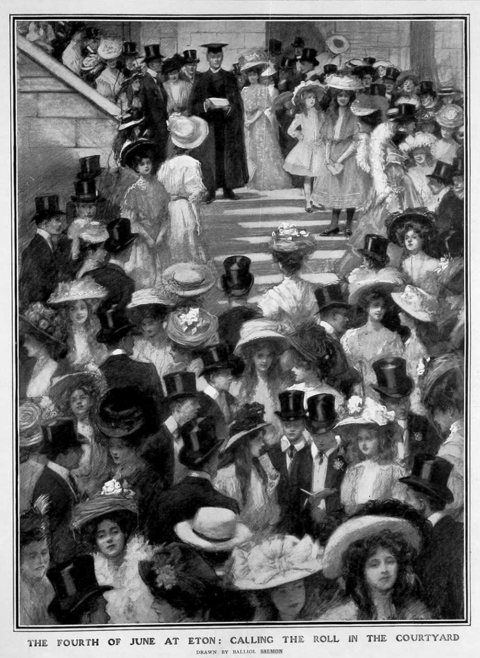 The Fourth of June is a celebration at Eton which is never held on that exact date. It is intended to mark the birthday of King George III. What made it different from other days is that it was an open day and families could visit the colletd.